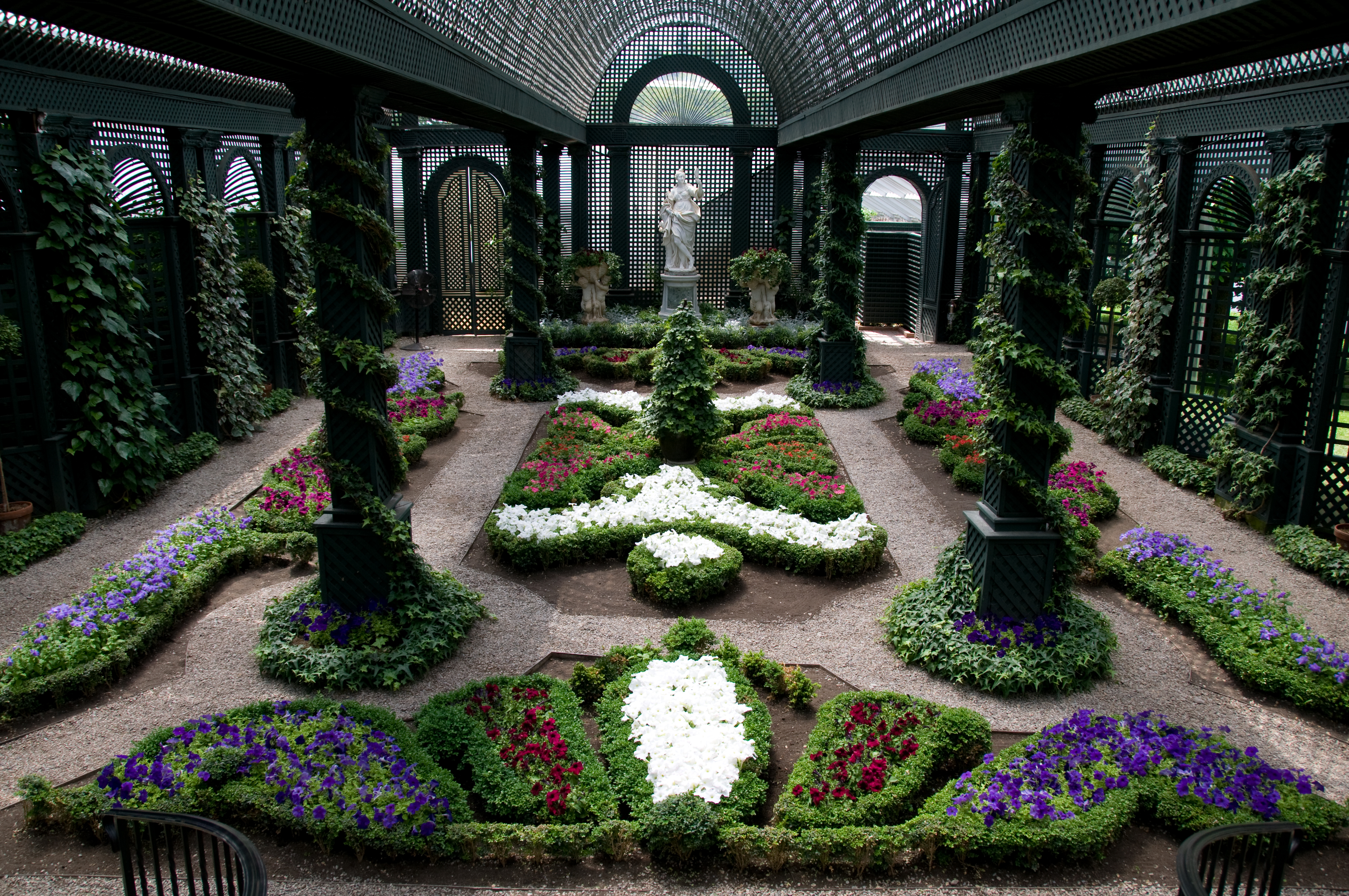 The French Garden — one of the former Indoor Display Gardens at Duke Gardens, in New Jersey. During Doris Duke's lifetime the French Pavilion's gardens were lit at night, and there were spectacular evening tours ( French Pavilion at night ). History Duke Gardens featured eleven distinct designs inspired by diverse cultures and regions of the world, created and maintained in elaborate greenhouses. Italian, Colonial, Edwardian, French, English, Chinese, Japanese, and Indo-Persian designs were juxtaposed near desert, tropical, and semi-tropical greenhouse environments. In 1958, Doris Duke began a six-year process of designing and creating the display gardens. She traveled the globe seeking specimens and ideas to complete the gardens, which she first opened to the public in 1964. On May 25, 2008, the Indoor Display Gardens were closed indefinitely by the Trustees of the Doris Duke Charitable Foundation.